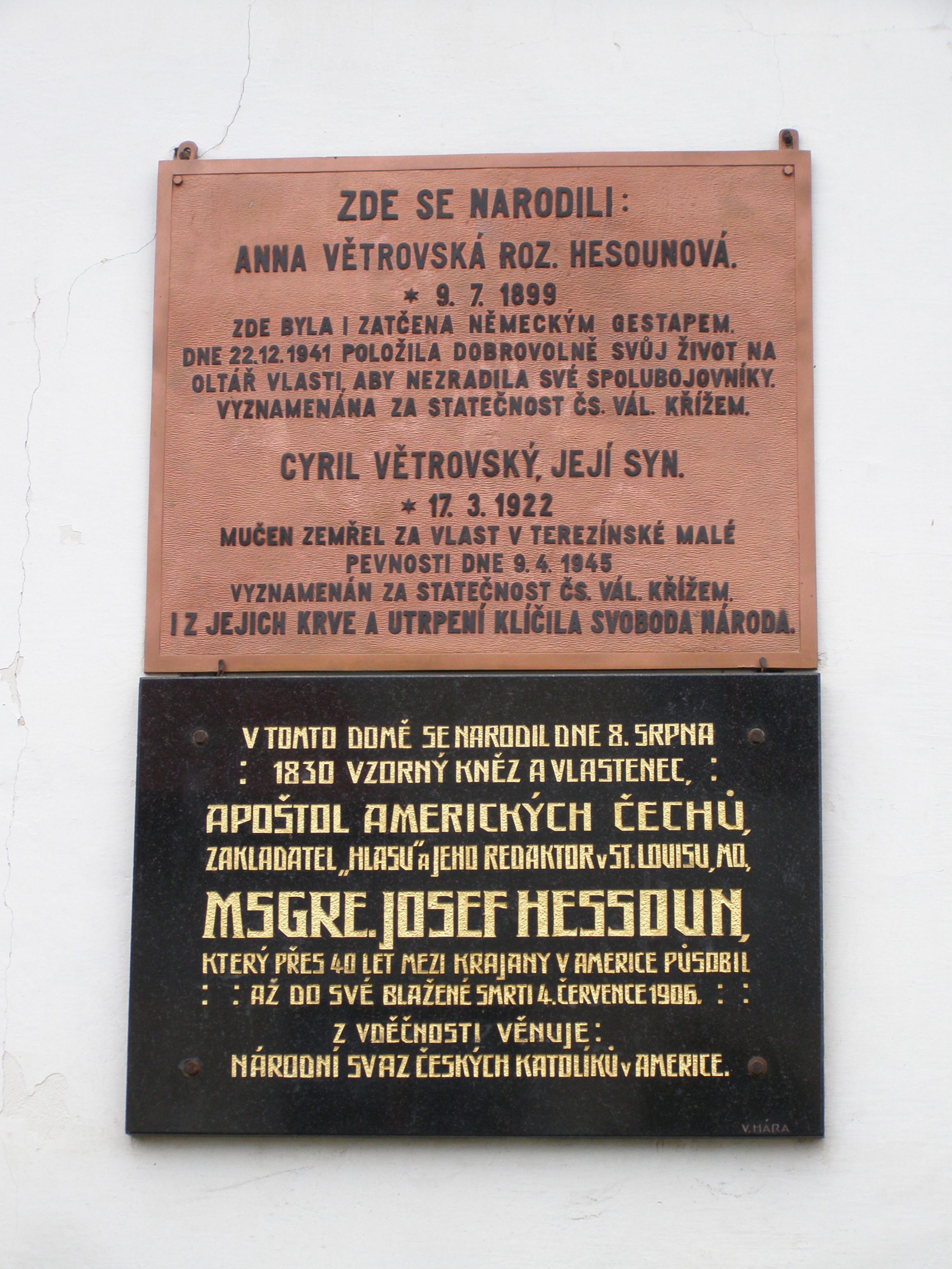 Two memorial plaques located in the municipality Vrcovice (in Pisek district, about 4 km north of the south Bohemian town Pisek, Czech Republic) on the wall of the house number 17. Upper plaque commemorates the pair of persons: Větrovská Anna (nee Hesounová) (* 1899 - 1941) participant anti-German resistance during the Protectorate, and of her son, who was Cyril Větrovský (* 1922 - 1945), martyred in 1945 by the Nazis in the small fortress Terezín. Lower plaque commemorates Joseph Hessouna (* 1830 - 1906) - Czech priest, patriot and "apostle of American Czechs", who worked for 40 years among expatriates in America.